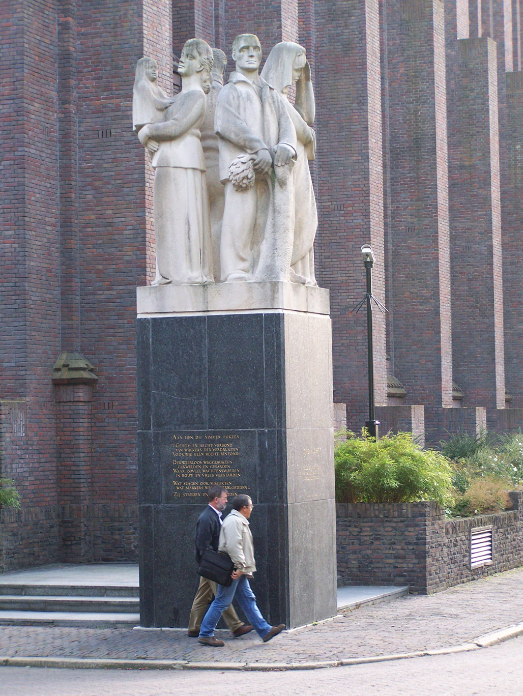 Monument for those Dutch railwayemployees who lost there lives during WOII and in particular those who participated in the railwaystrike of 1944. Statue was made by Willem Johannes Valk and revealed in 1949. Poem by Hendrik de Vries on the monument.